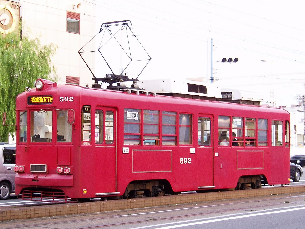 Tosa Railway Tram Series 590 at Harimayabashi